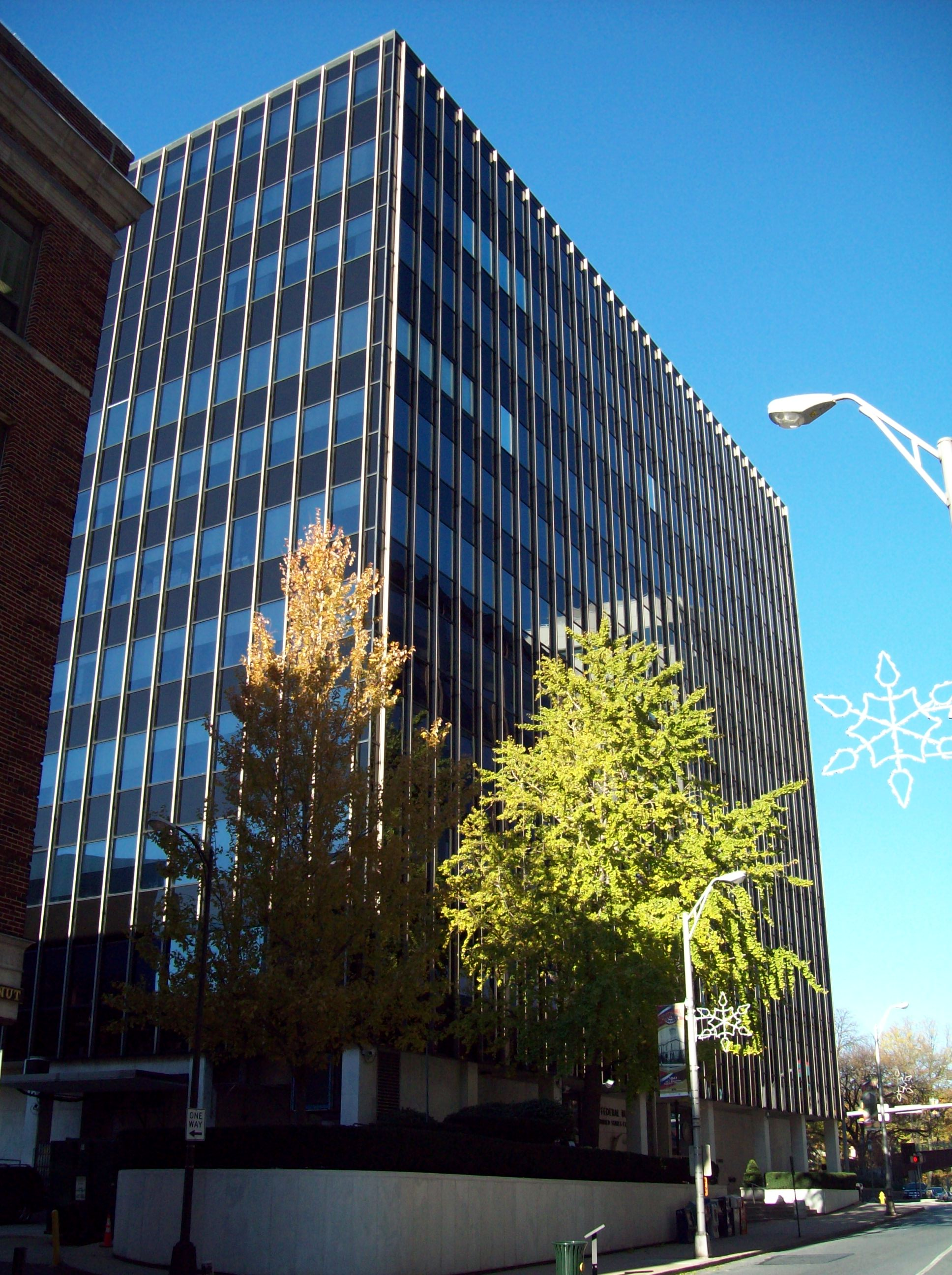 Ronald Reagan Federal Building and Courthouse, Harrisburg PA, November 2010